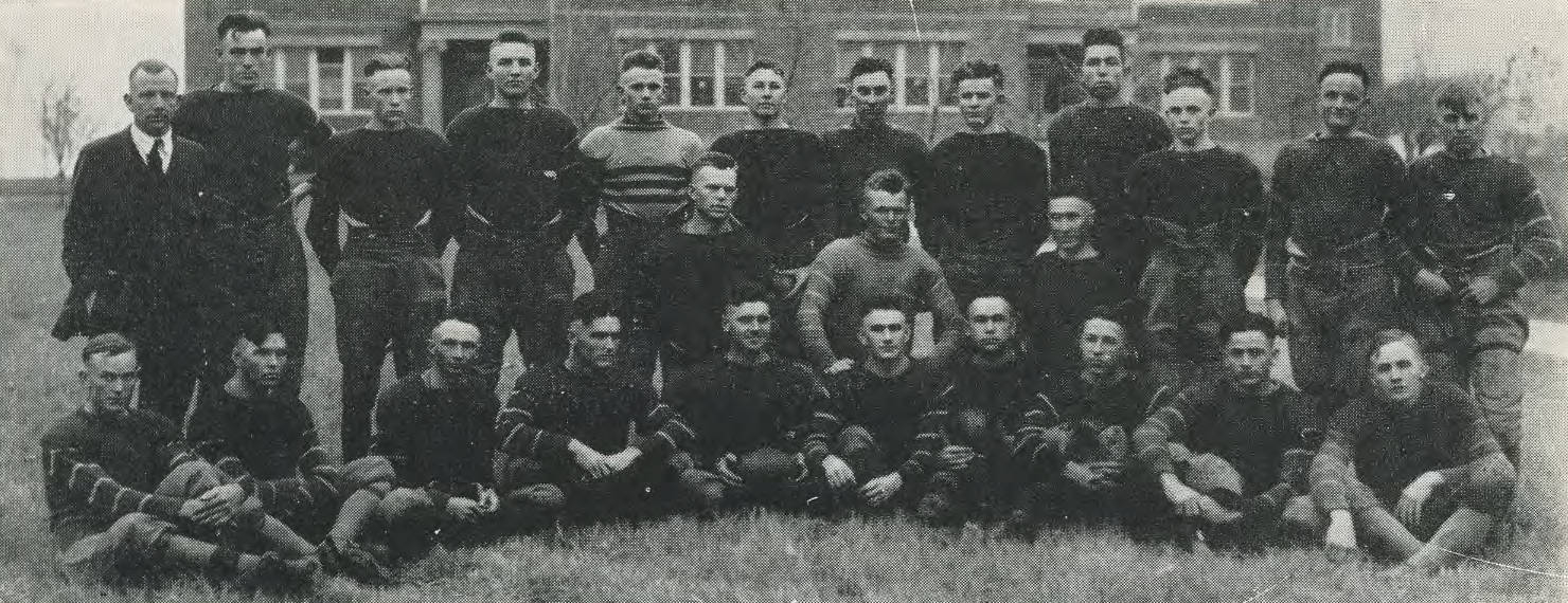 The 1919 East Texas State Normal College football team.